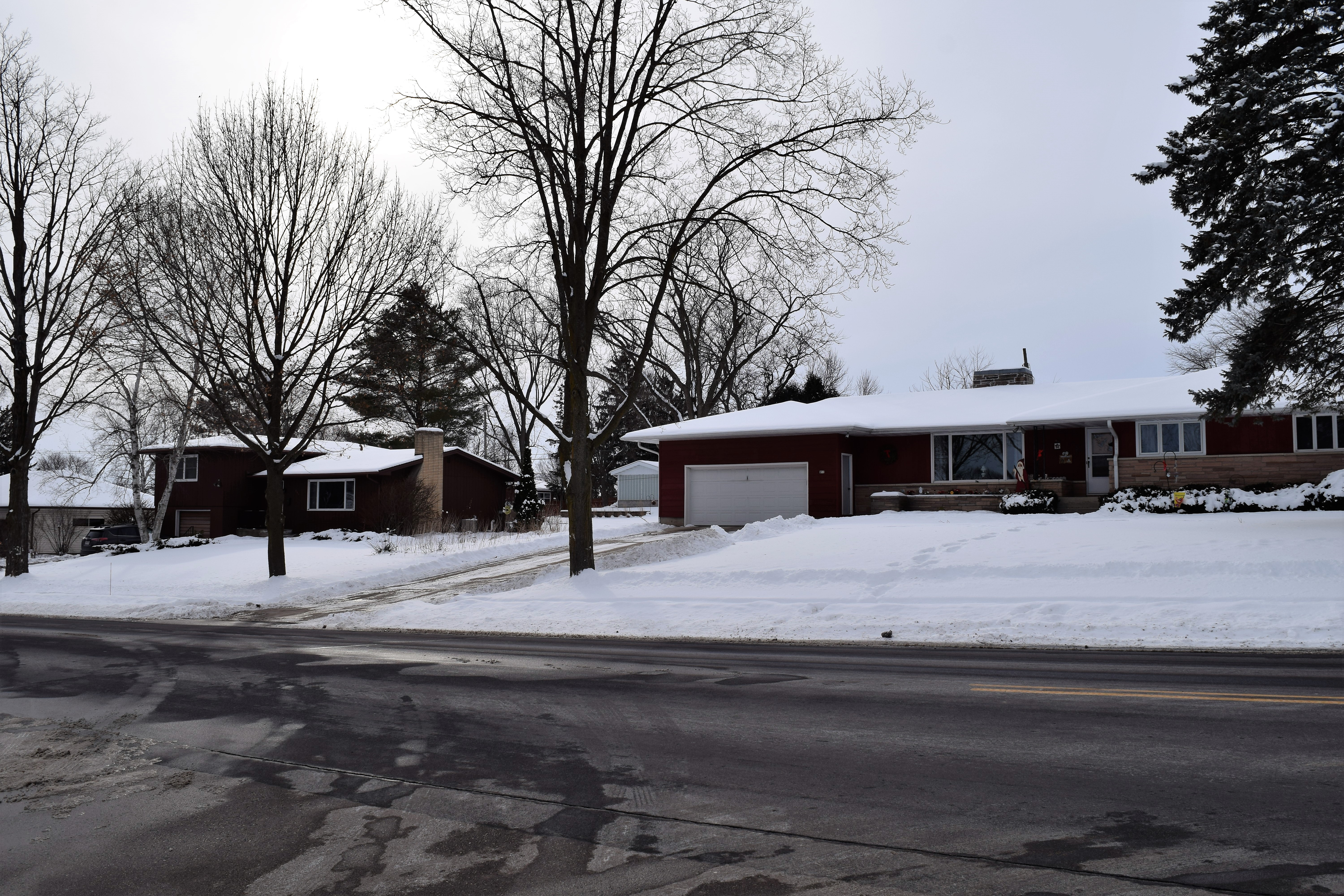 Houses on the west side of Dix Street opposite its intersection with Charles Street in Columbus, Wisconsin. The houses are part of the Dix Street-Warner Street Historic District, which is listed on the National Register of Historic Places.